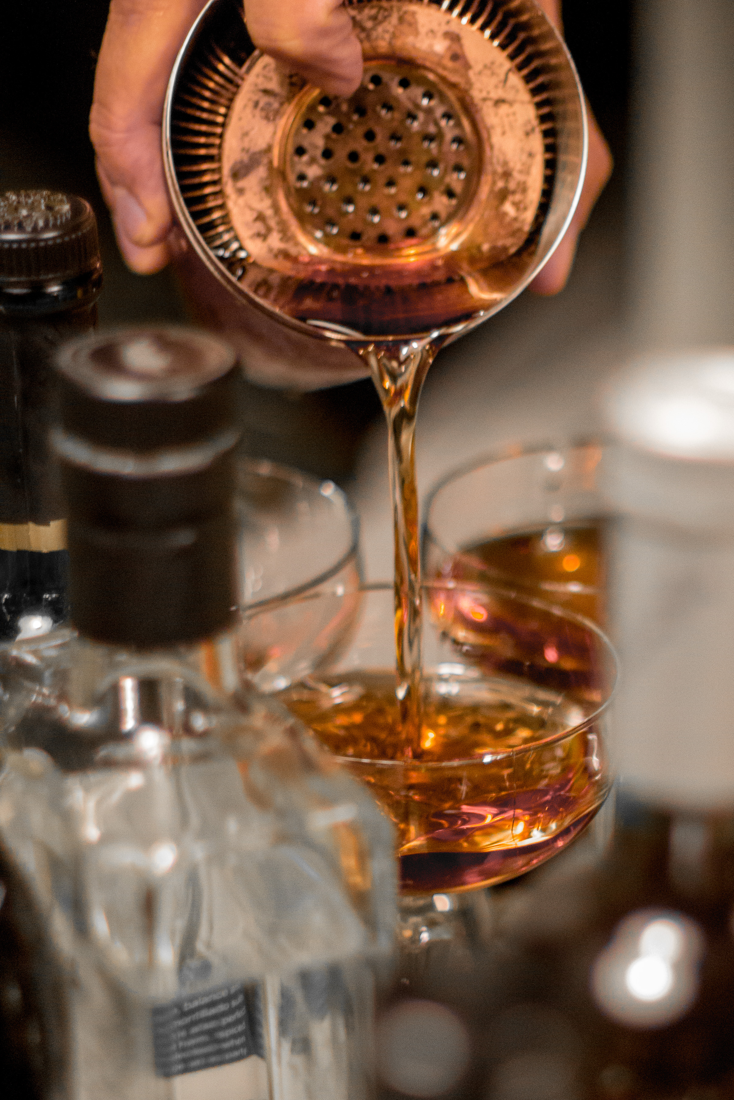 Straining a cocktail into a cocktail glass. The liquid is poured from a tin shaker while a copper plated Hawthorne strainer holds back the ice.